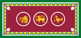 Western Province Flag